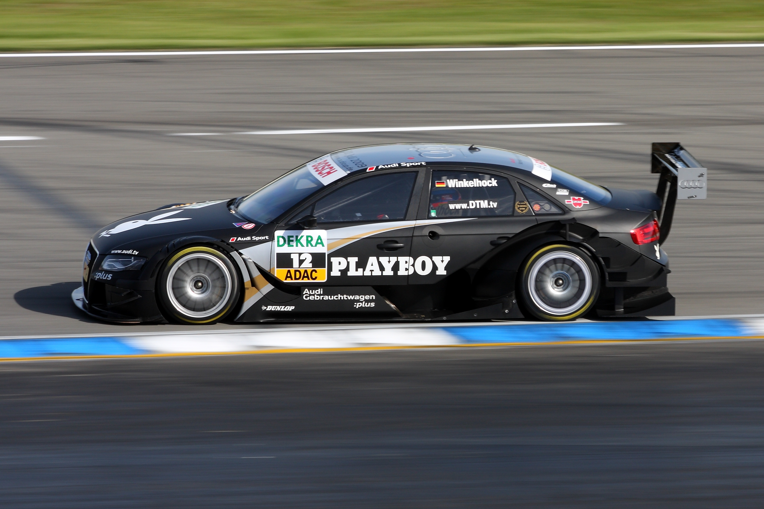 DTM Audi A4, Markus Winkelhock (driver)